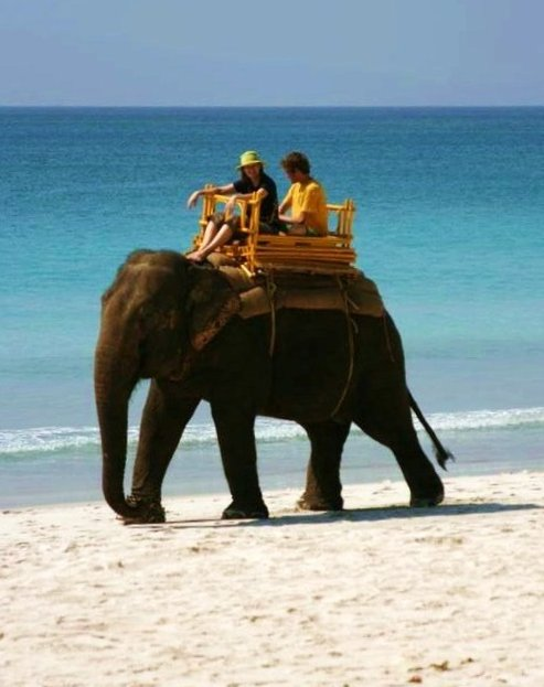 Elephants are used to entertain tourists at some beaches as at Havelock Island, India. Elephants and camels rides are common on Indian beaches. Shown here is Havelock Island, part of the Andaman and Nicobar Islands.